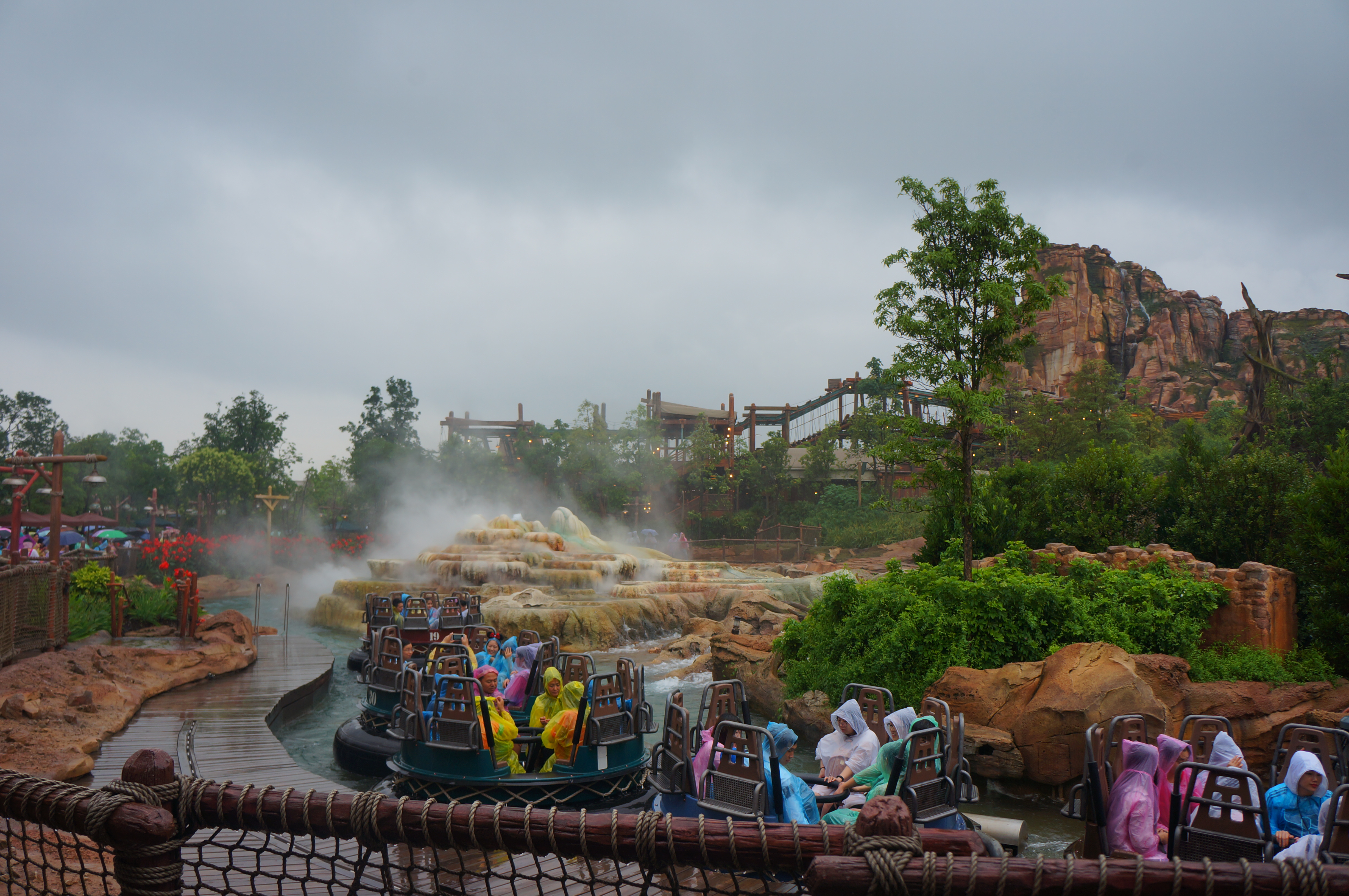 201706 Shanghai Disneyland Roaring Rapids